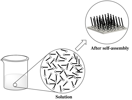 An example of self-assembly of nanoparticles in a solution. In this diagram, it can be seen that a disordered system formed an organized structure which can be due to specific interactions among the particles.